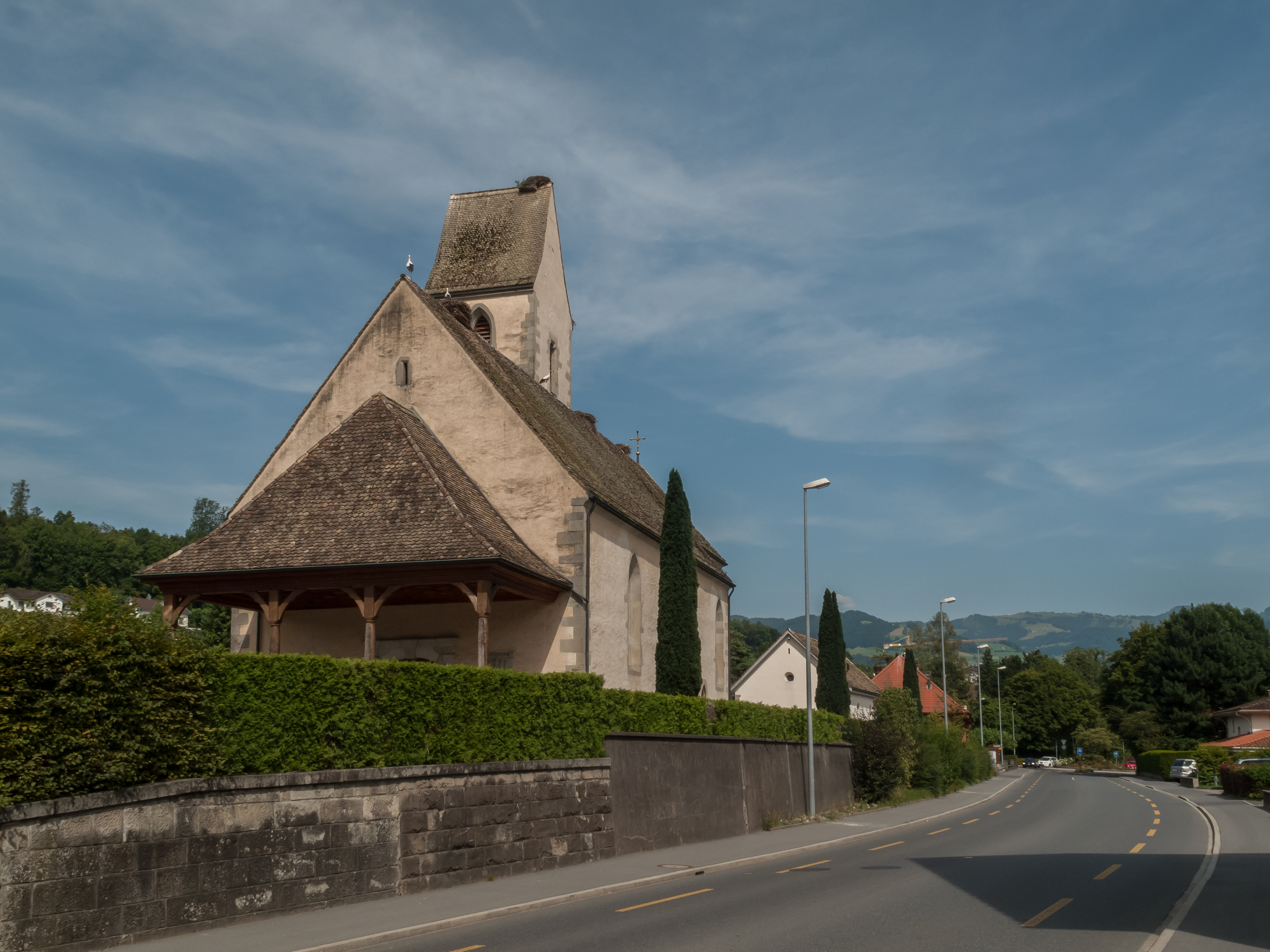 Uznach, church: Katholische Friedhofkirche heilige Kreuz mit Kapelle